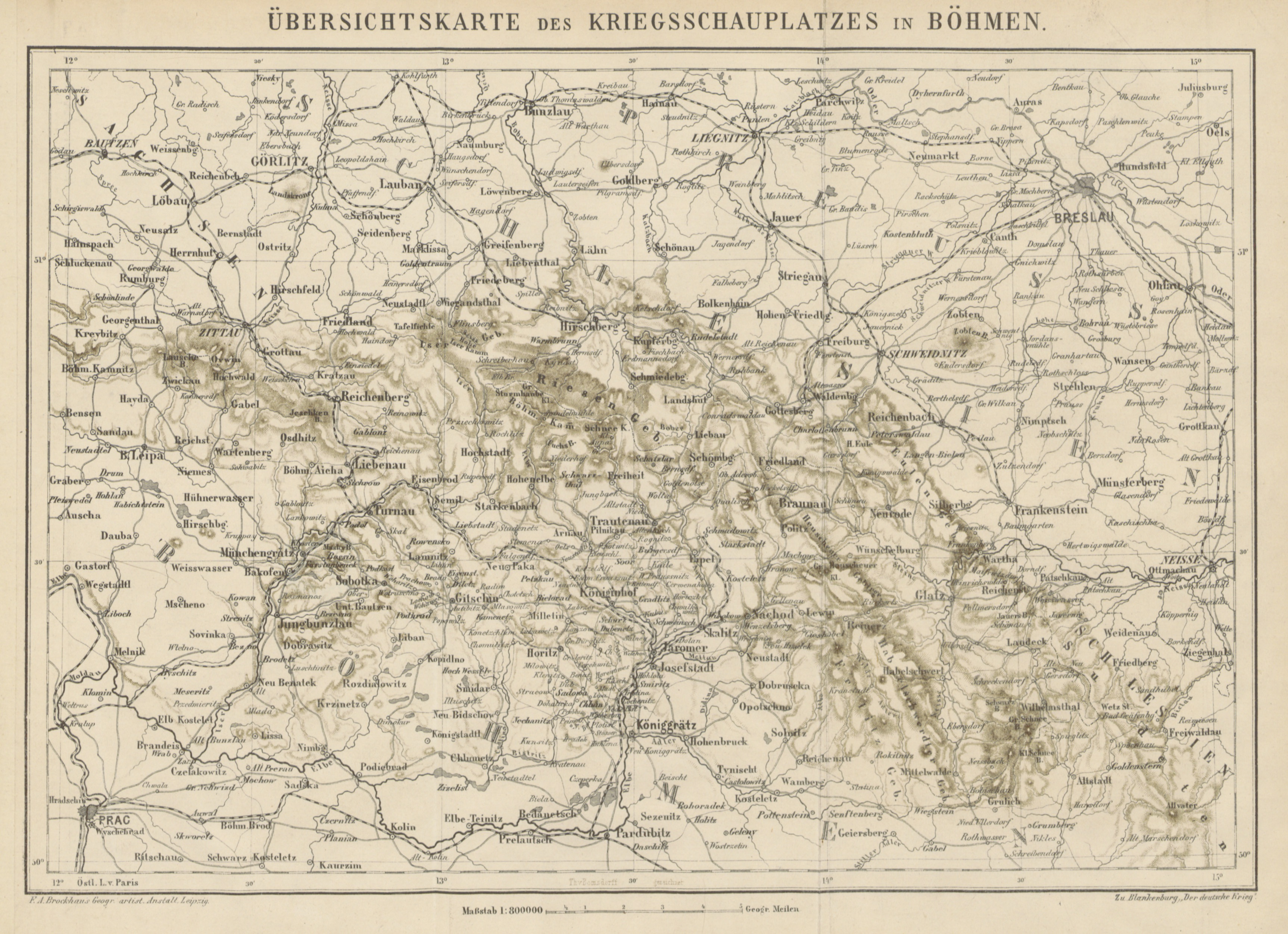 Image extracted from page 341 of Der deutsche Krieg von 1866. Historisch, politisch und kriegswissenschaftlich dargestellt ... Mit Karten und Plänen', by BLANKENBURG, Heinrich - Historical writer. Original held and digitised by the British Library. Copied from Flickr. Note: The colours, contrast and appearance of these illustrations are unlikely to be true to life. They are derived from scanned images that have been enhanced for machine interpretation and have been altered from their originals.